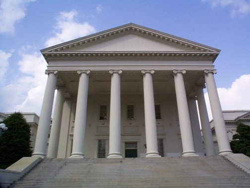 View of the Virginia Capitol Building in Richmond. Amadeust took this picture in June of 1998.